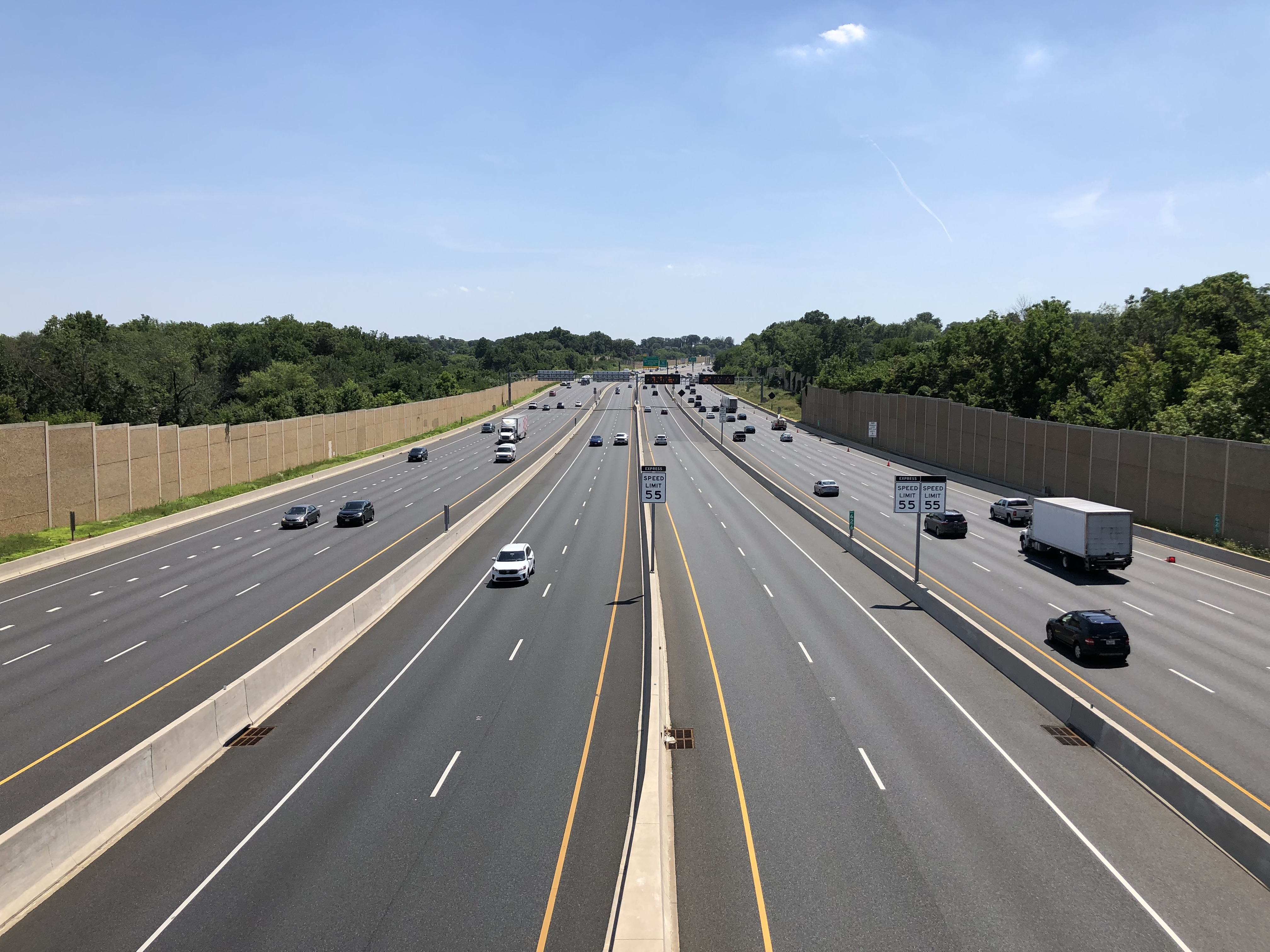 View south along Interstate 95 (John F. Kennedy Memorial Highway) from the overpass for Hazelwood Avenue in Rosedale, Baltimore County, Maryland